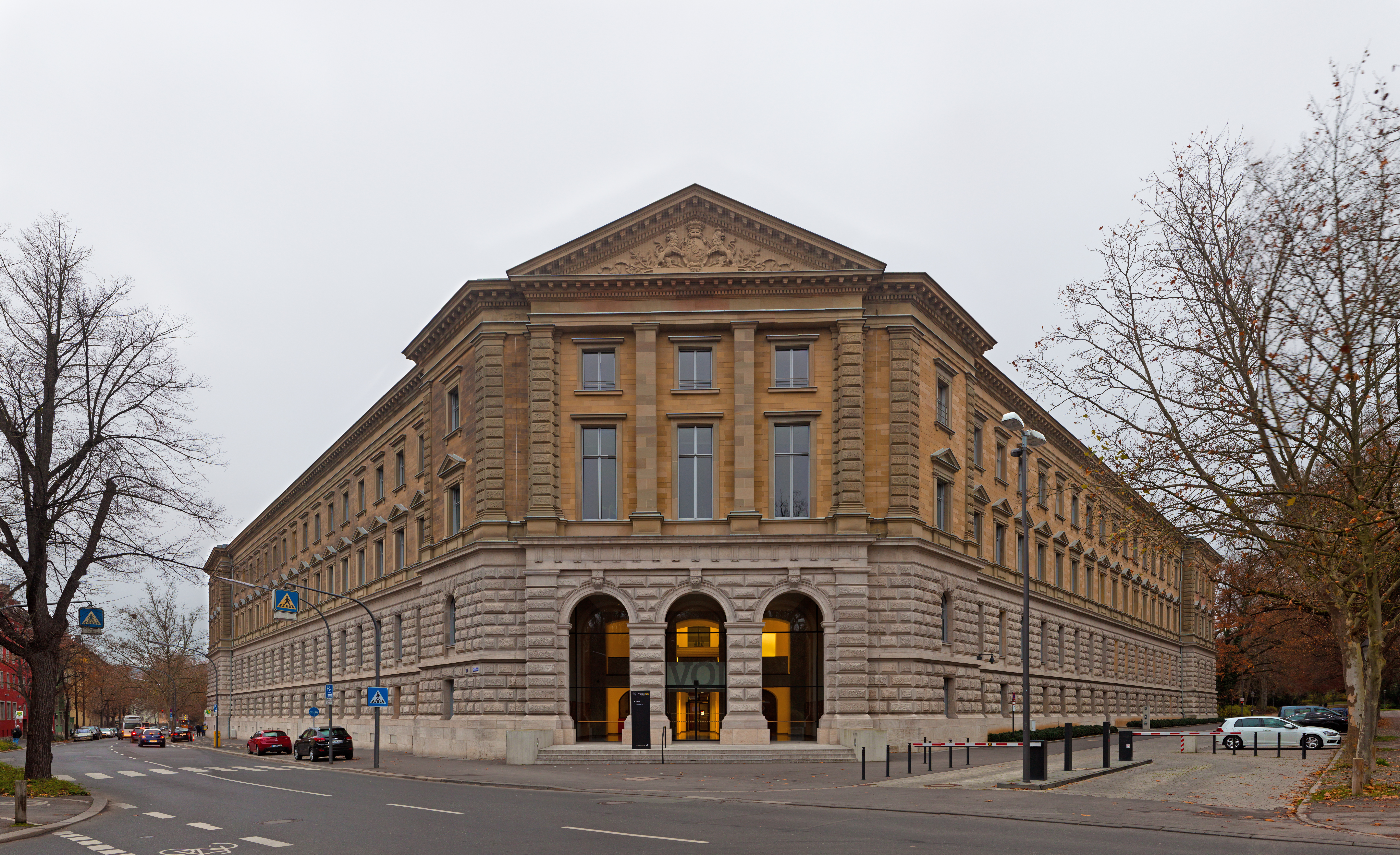 Justice center in Würzburg, provincial court and local court.